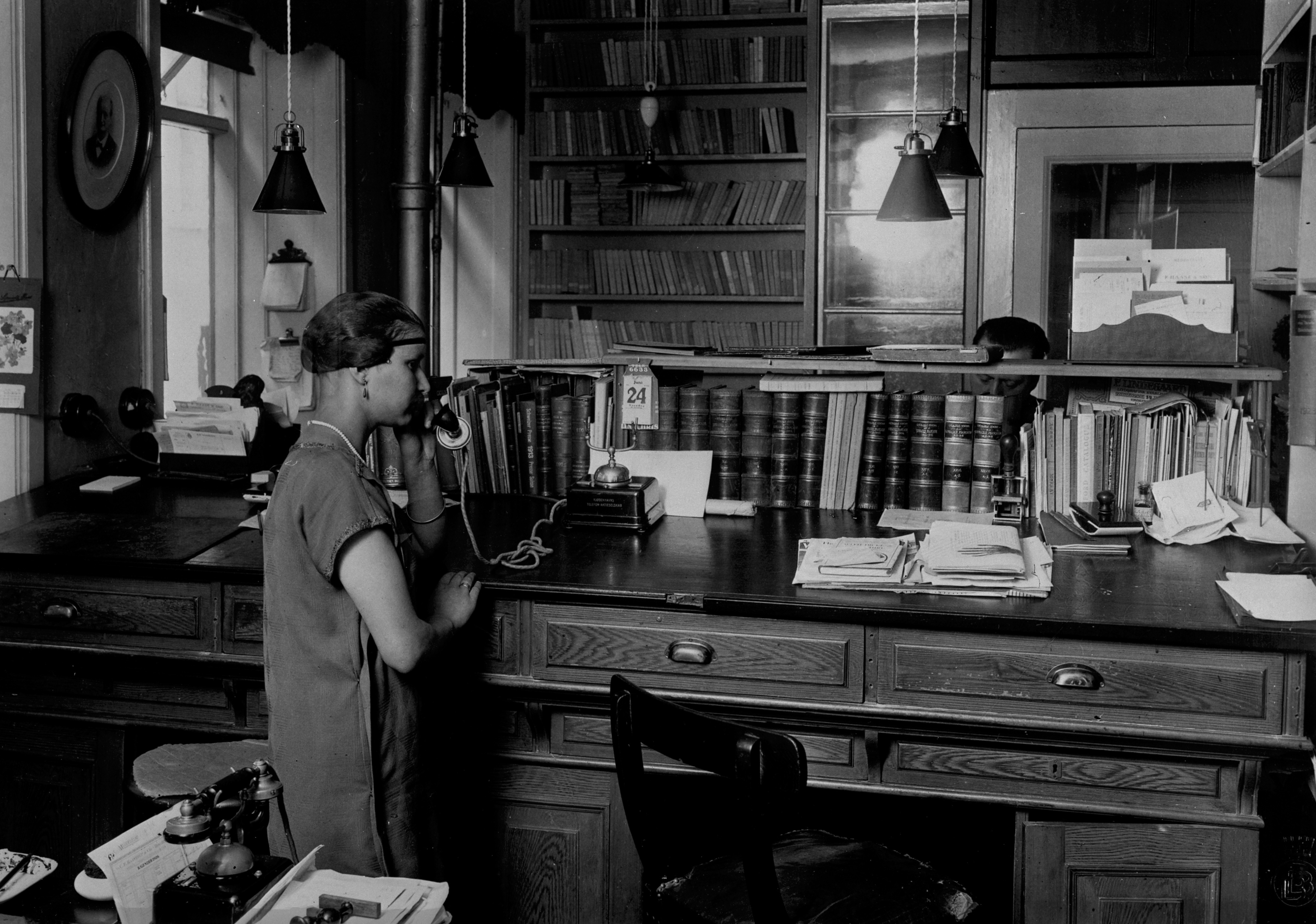 Publisher Haase & Sons Forlag, Denmark. Unknown year.